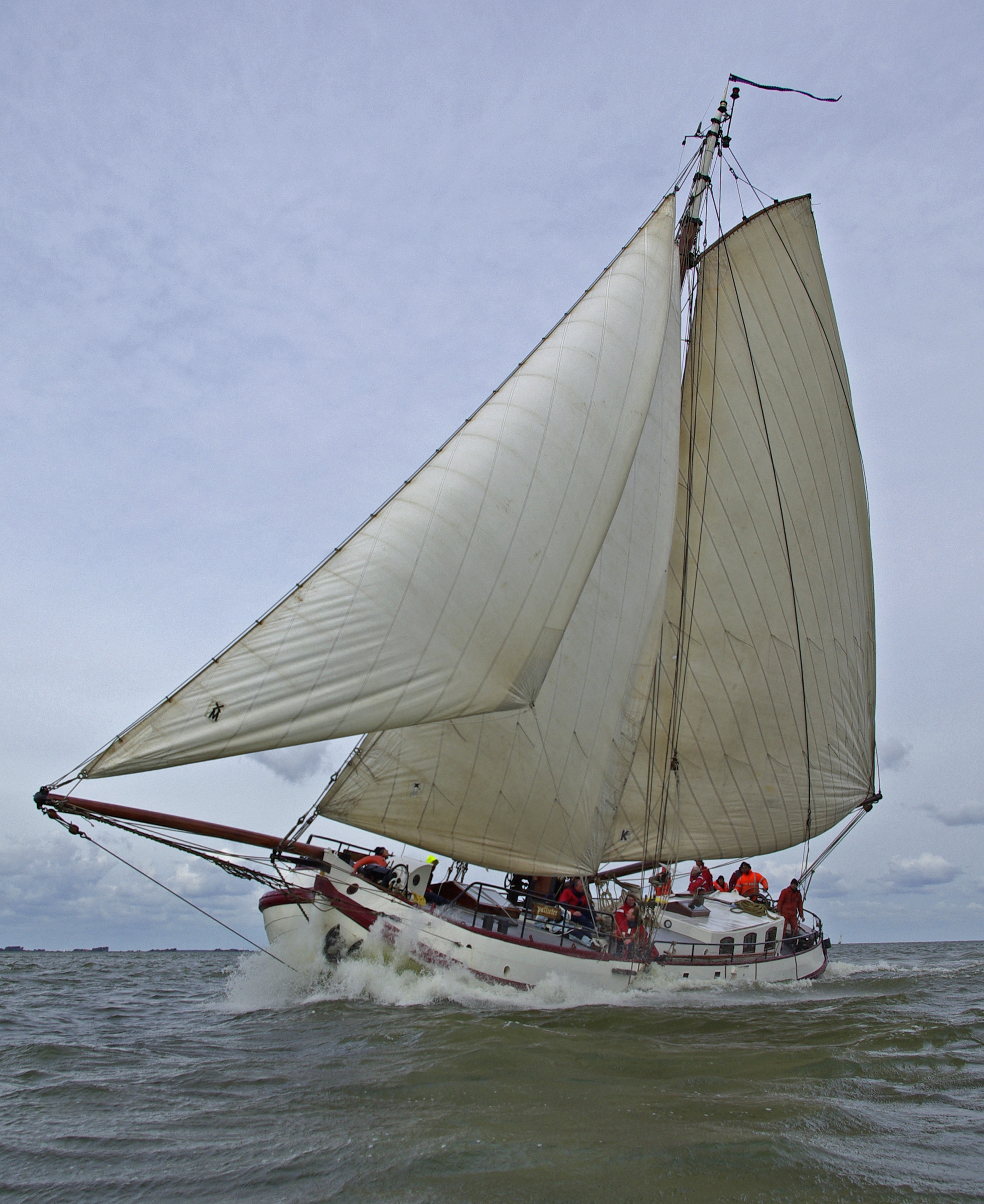 Traditional Tjalk Pallieter(anno 1899) sailing with 'kluiver', jib and mainsail